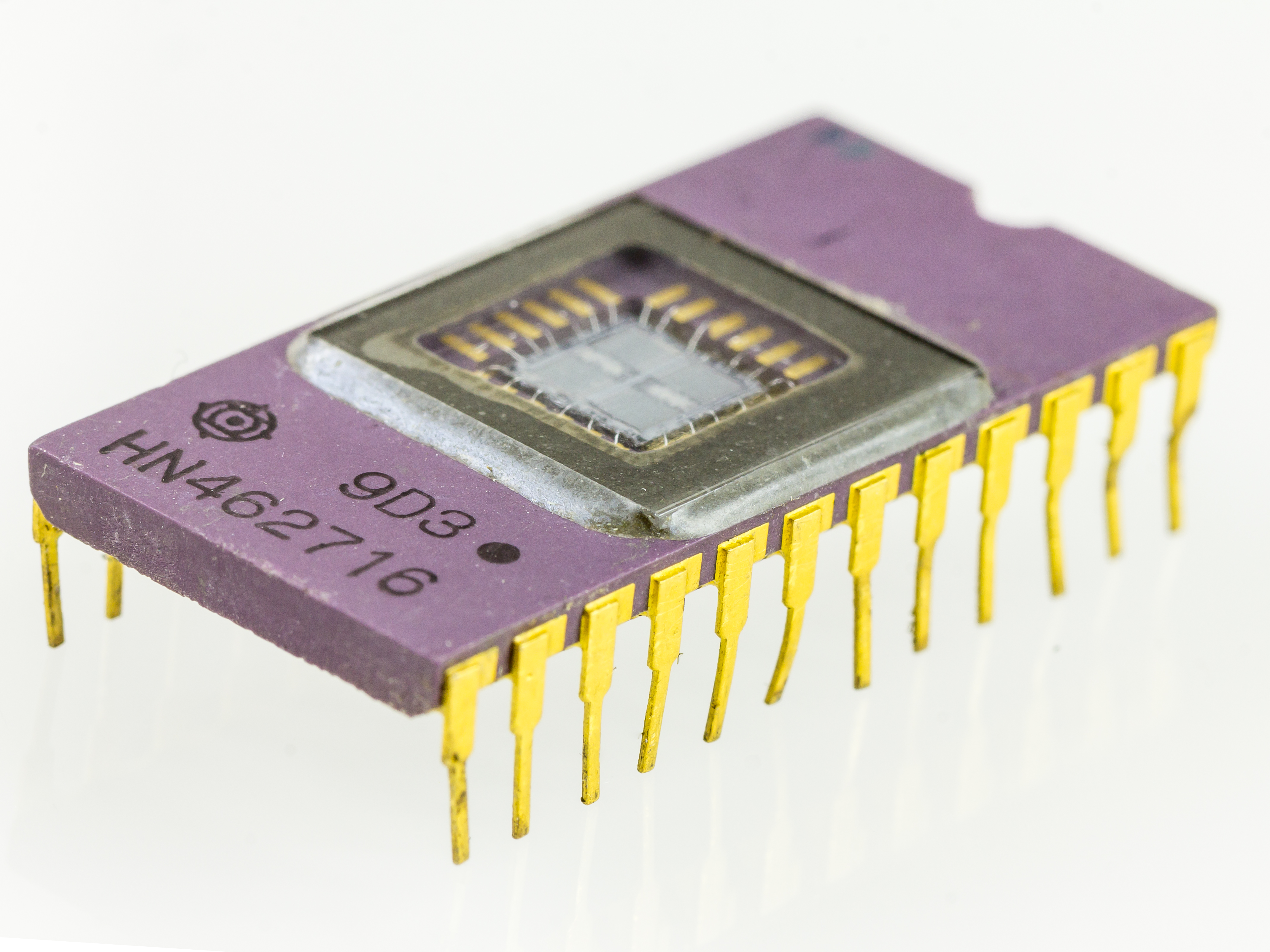 Hitachi HN462716 - 2048-word x 8bit UV Erasable and Electrically Programmable Only Memory